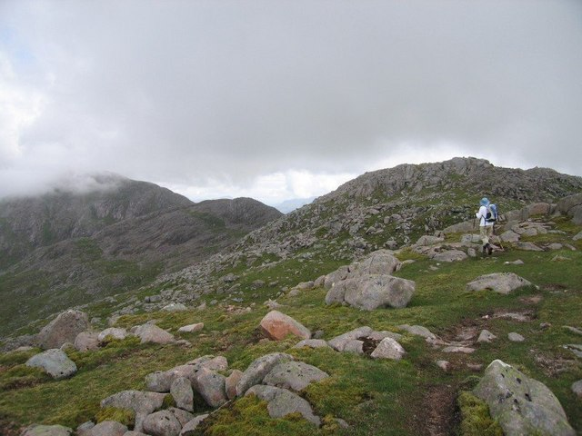 On the granite ridge of Beinn Sgulaird Approaching the marked height of 863m on the way to Beinn Sgulaird.